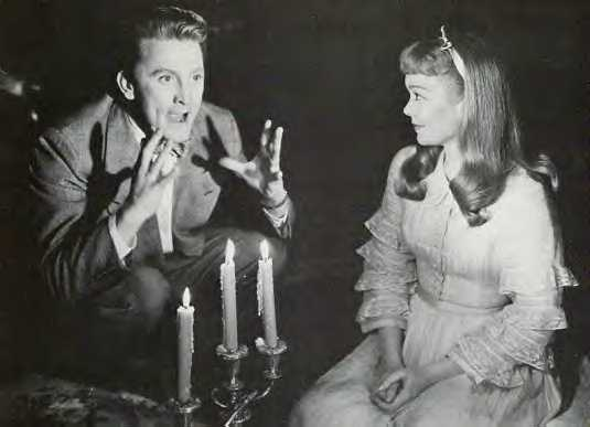 A screenshot of Kirk Douglas and Jane Wyman in The Glass Menagerie (1950) trailer.